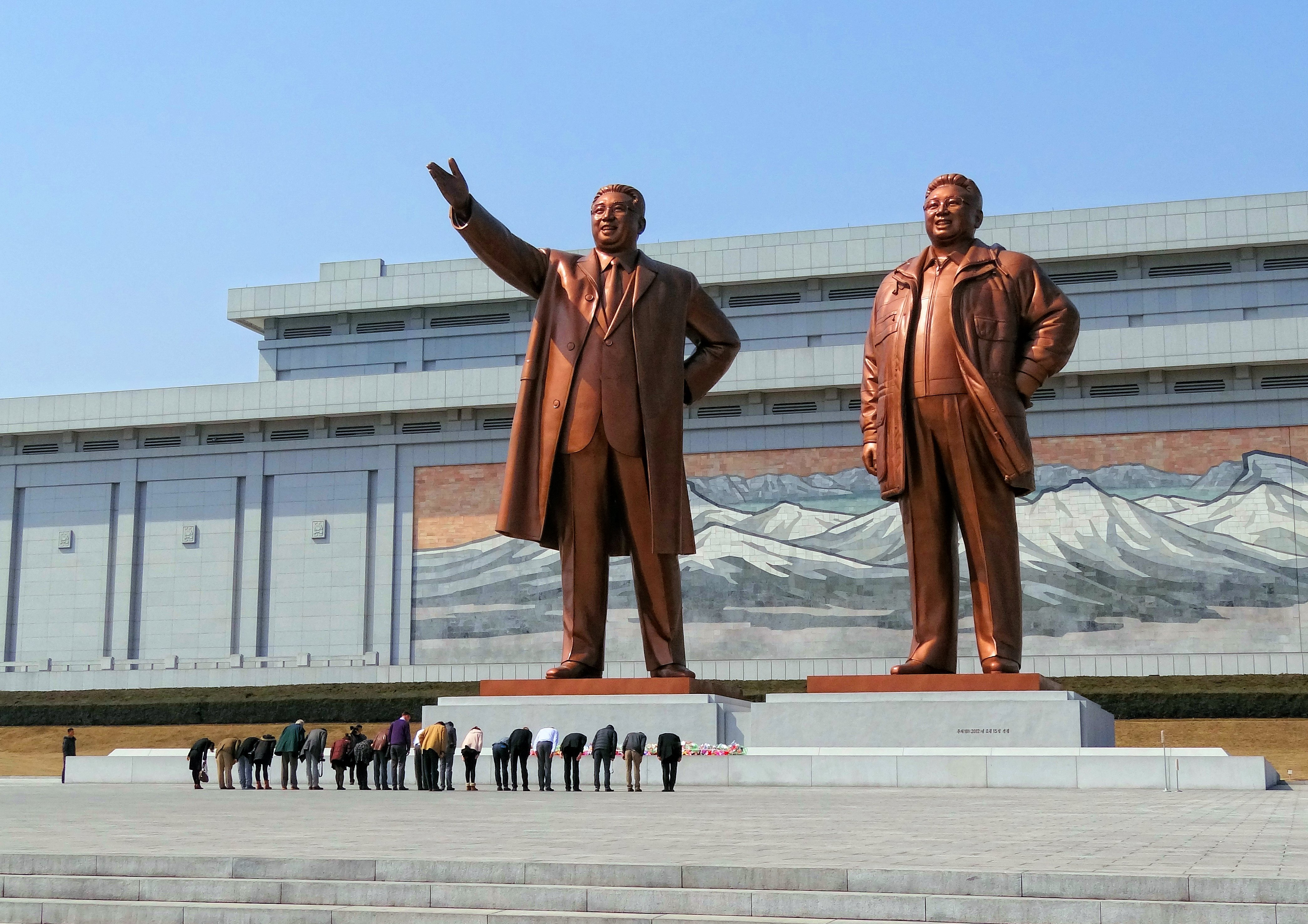 Visitors bowing in a show of respect for North Korean leaders Kim Il-sung and Kim Jong-il on Mansudae (Mansu Hill) in Pyongyang, North Korea.